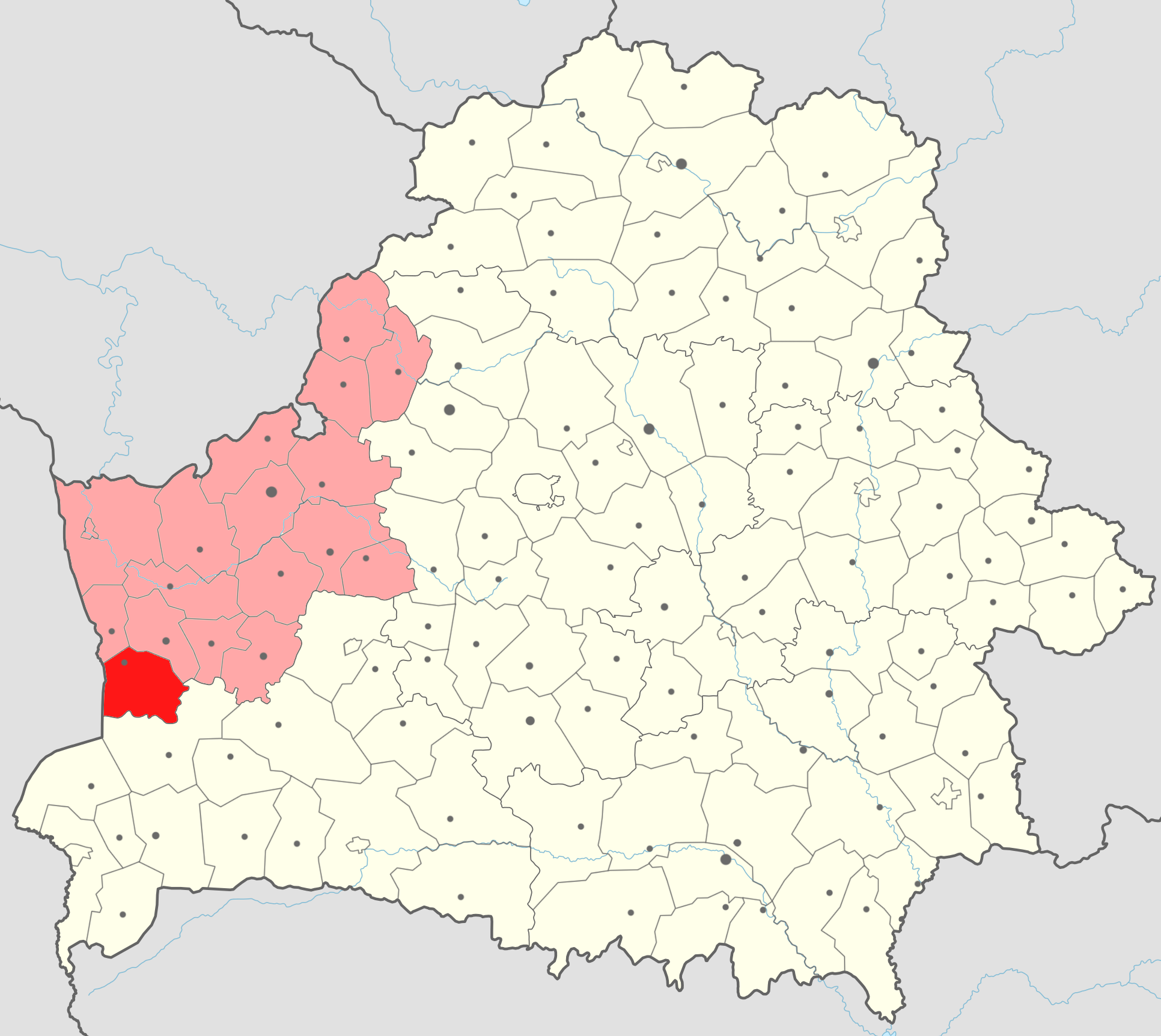 Map of Svislacki rayon (in red) with Hrodna voblast' (in light red) on the map of Belarus.